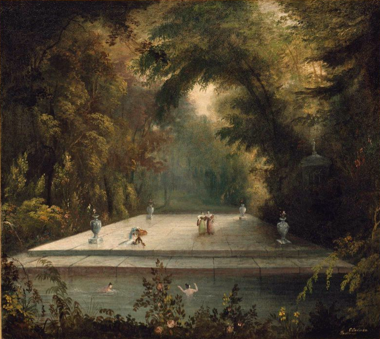 The Bathing Pool. about 1830. By Charles Codman, American, 1800–1842. 43.18 x 48.58 cm (17 x 19 1/8 in.). Oil on canvas.